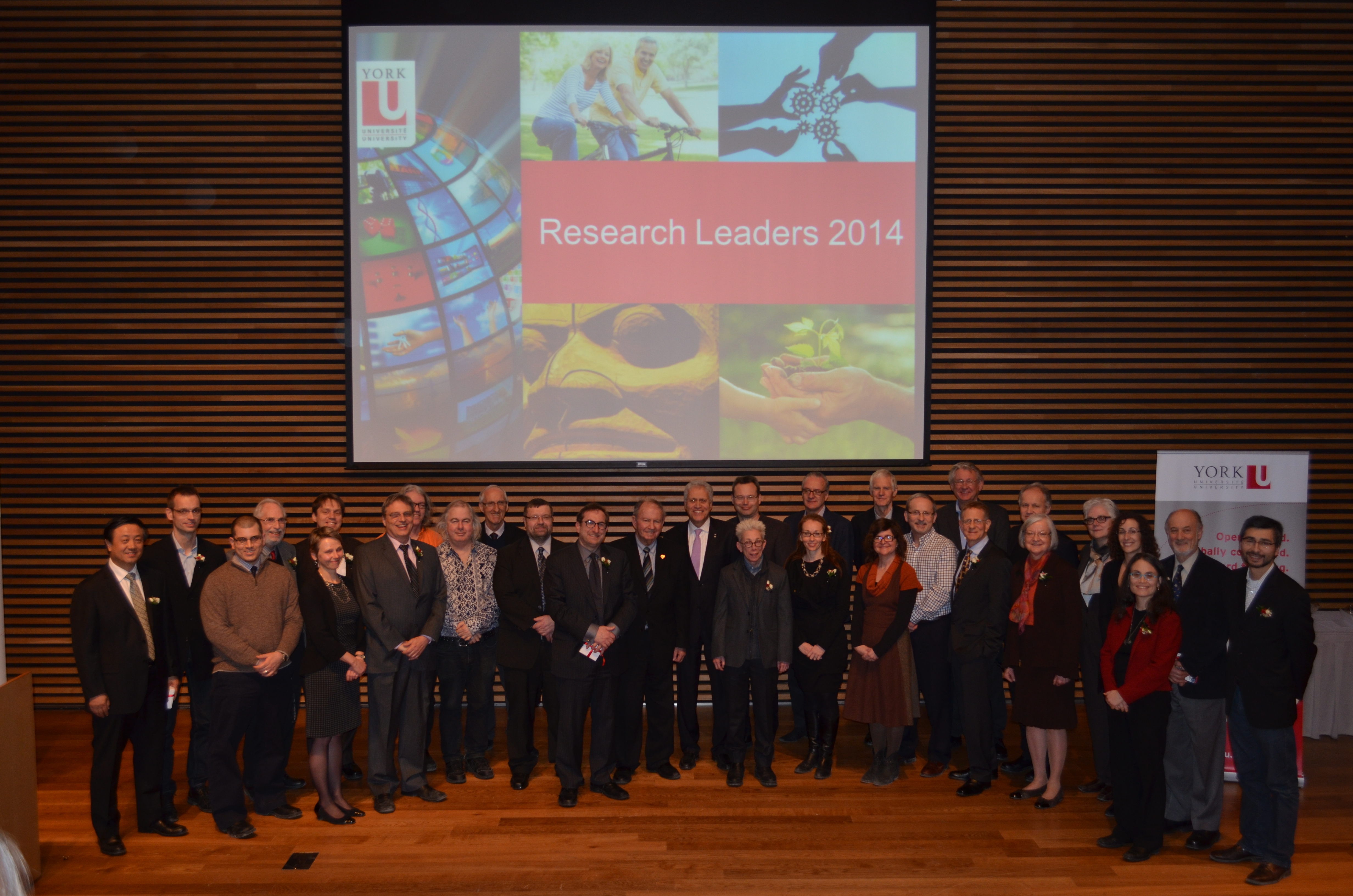 York University Research Leaders 2014 Robert McEwen Auditorium, SSB